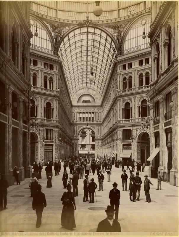 Carlo Brogi (1850-1925), "Naples - "Inside view of Galleria Umberto I. Architect is Ernesto di Mauro". Catalogue # 10209. In 1900s. In 2005.